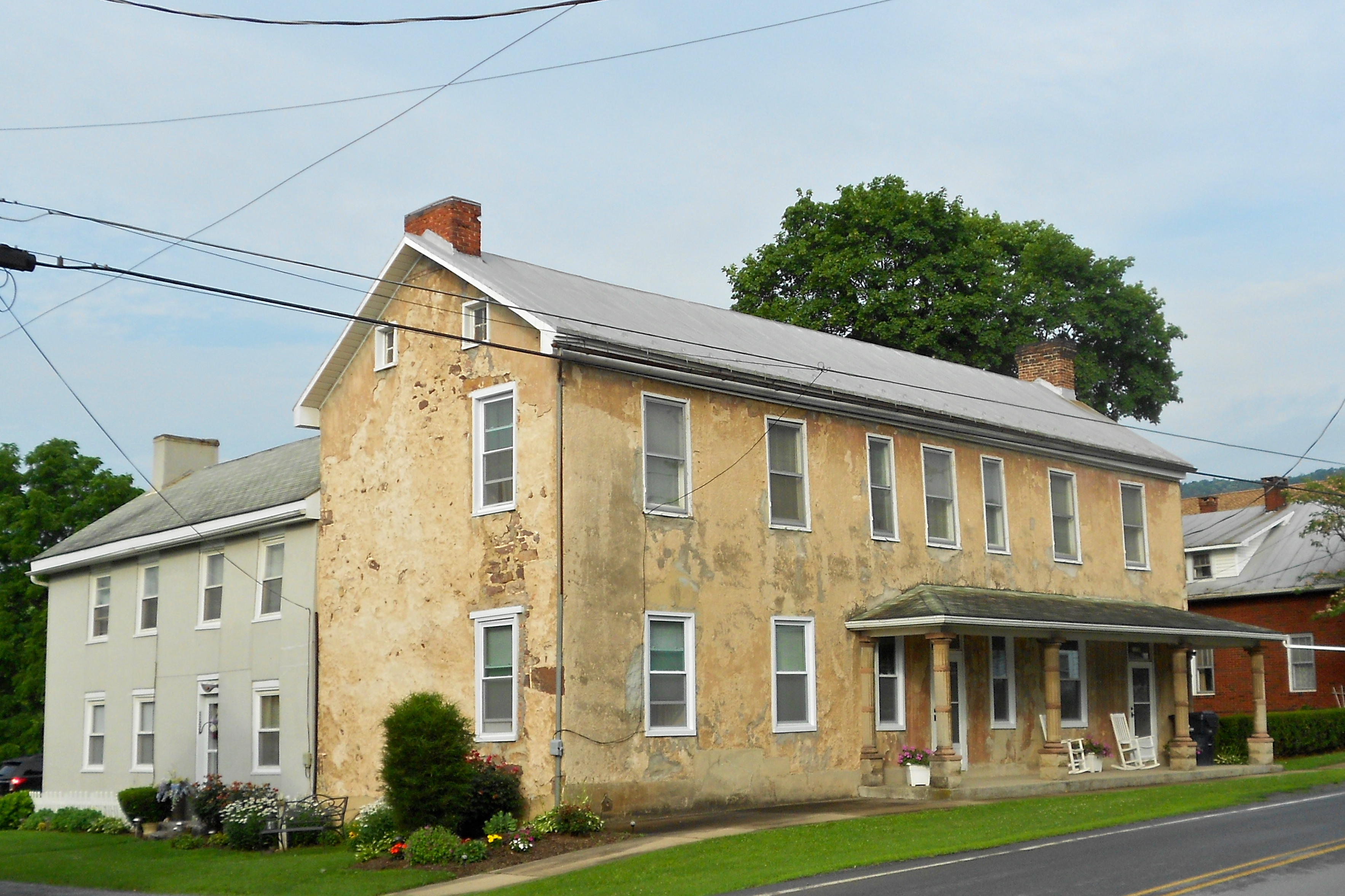 Building in Roxbury, Franklin County, Pennsylvania